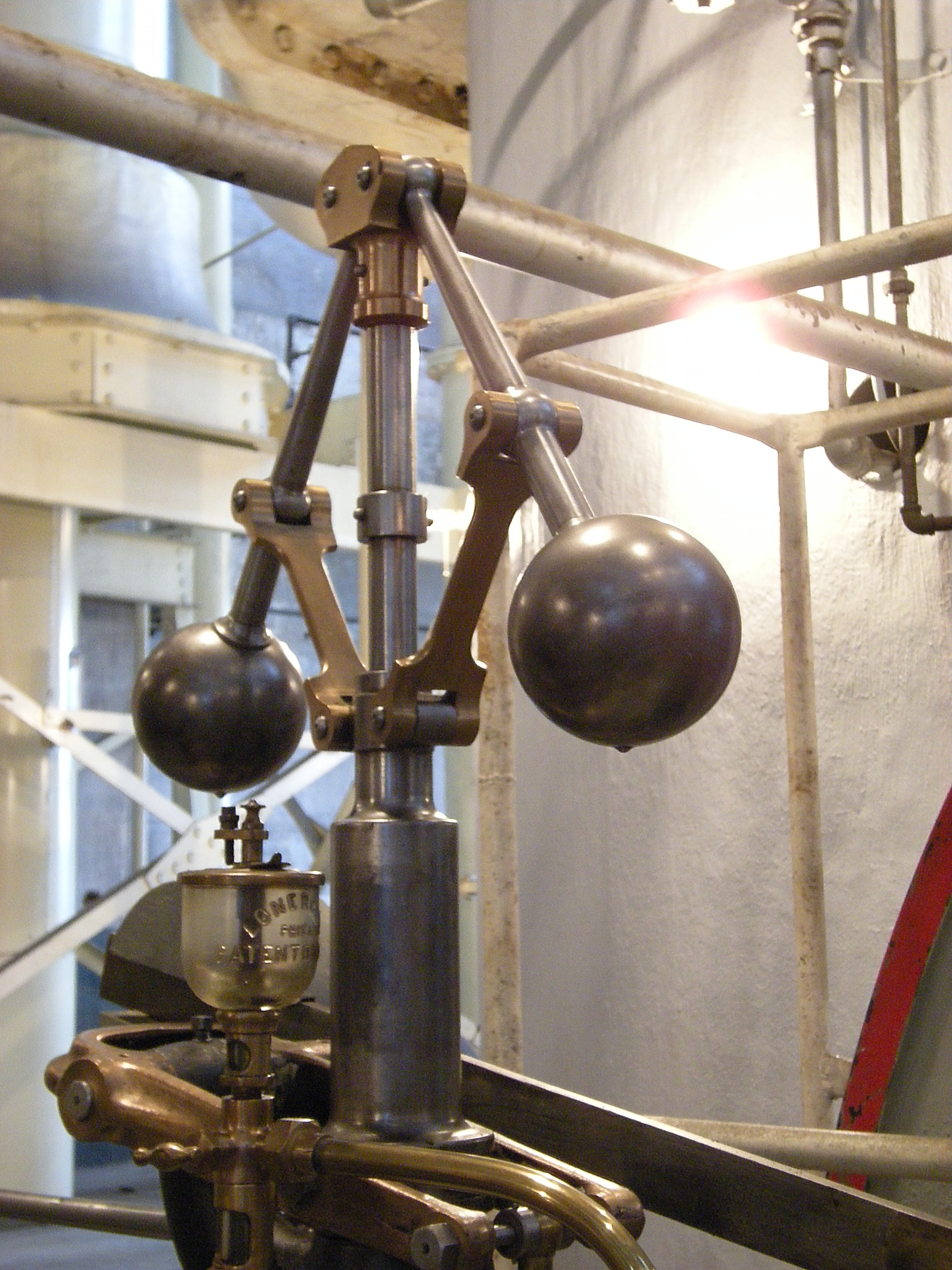 Centrifugal governor, Georgetown PowerPlant Museum, Seattle, Washington, USA. If someone knows more about this topic, please feel free to add to this description.